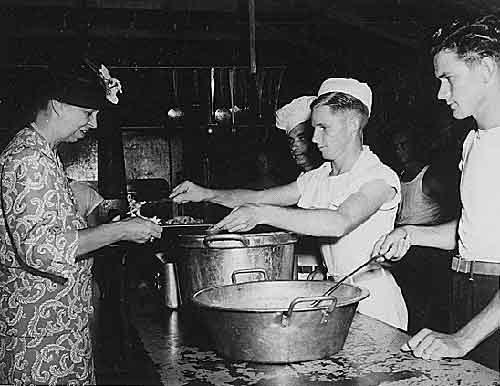 Eleanor Roosevelt in the mess hall at an Army airfield in the Galapagos Islands